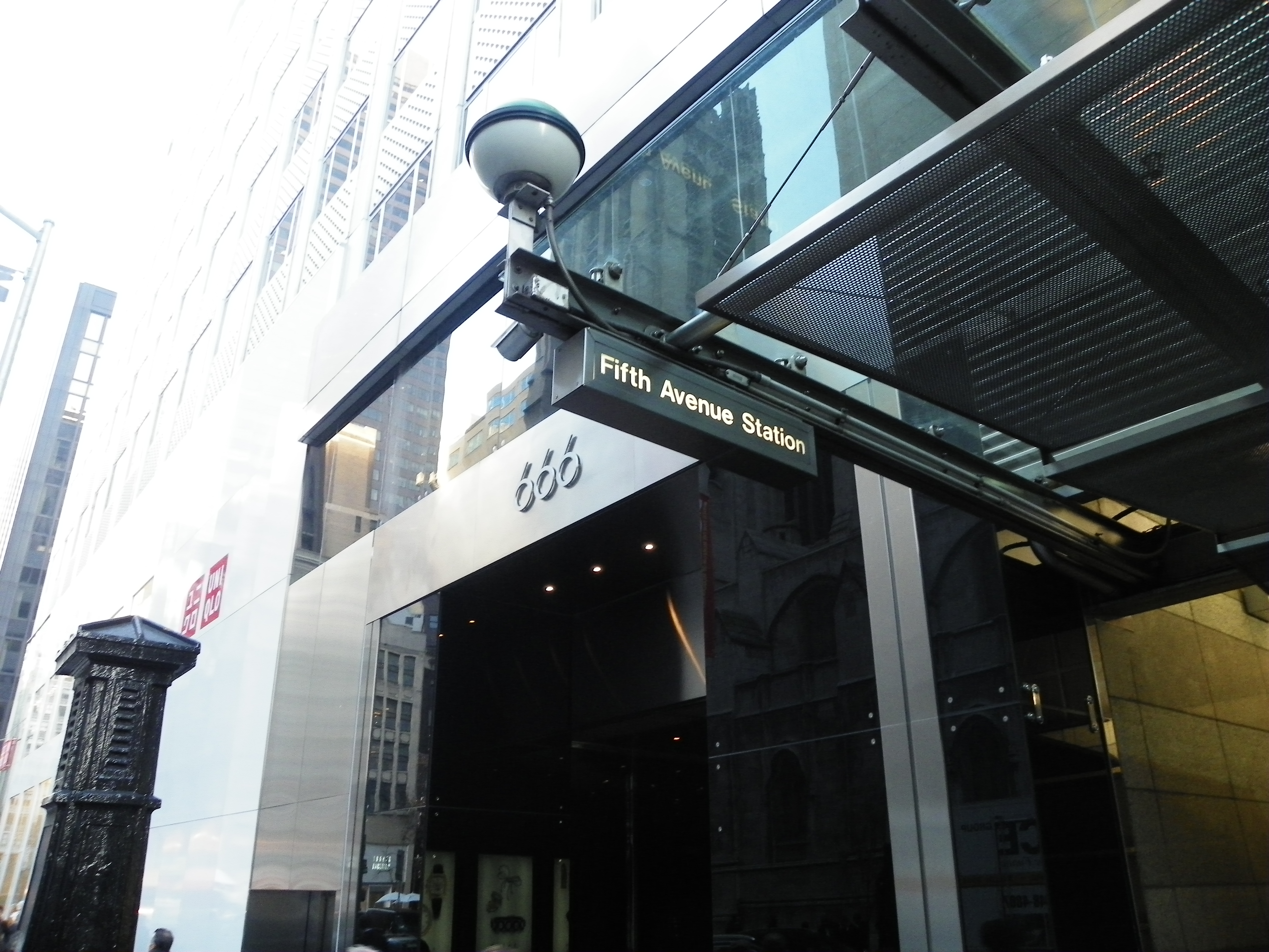 Near Radio City Music Hall